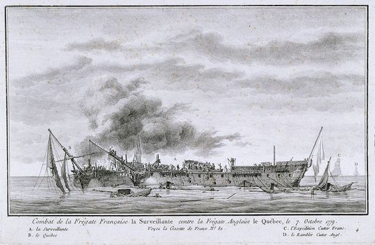 Combat of the French frigate Surveillante vs English frigate Quebec on 7 October 1779. See la Gazette de France No. 82 ; engraving